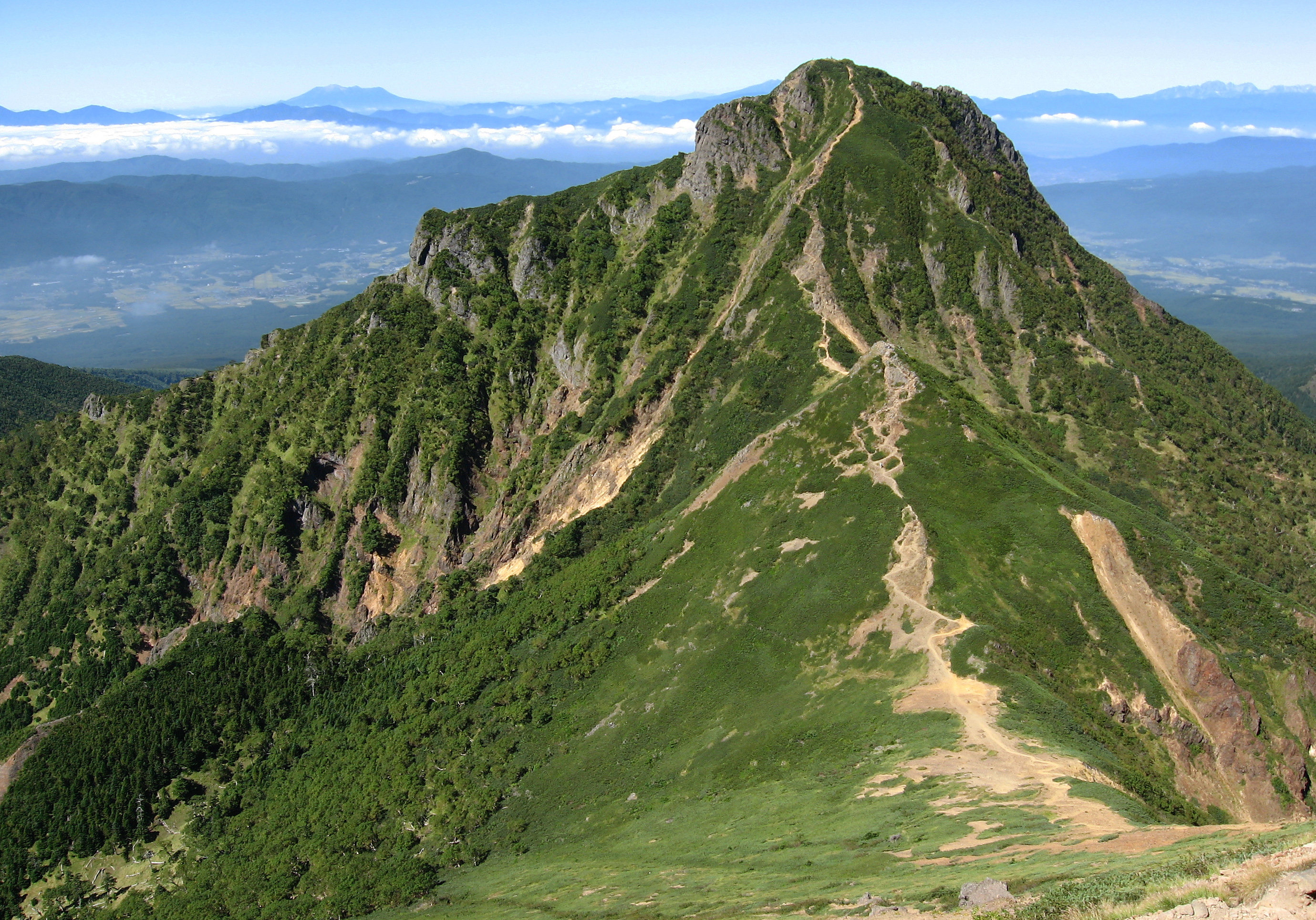 Mt.Amidadake seen from Mt.Akadake, Yatsugatake, Nagano, Japan.